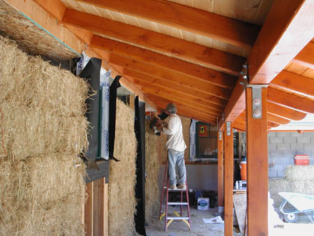 photo created by jonathan cross, 2002